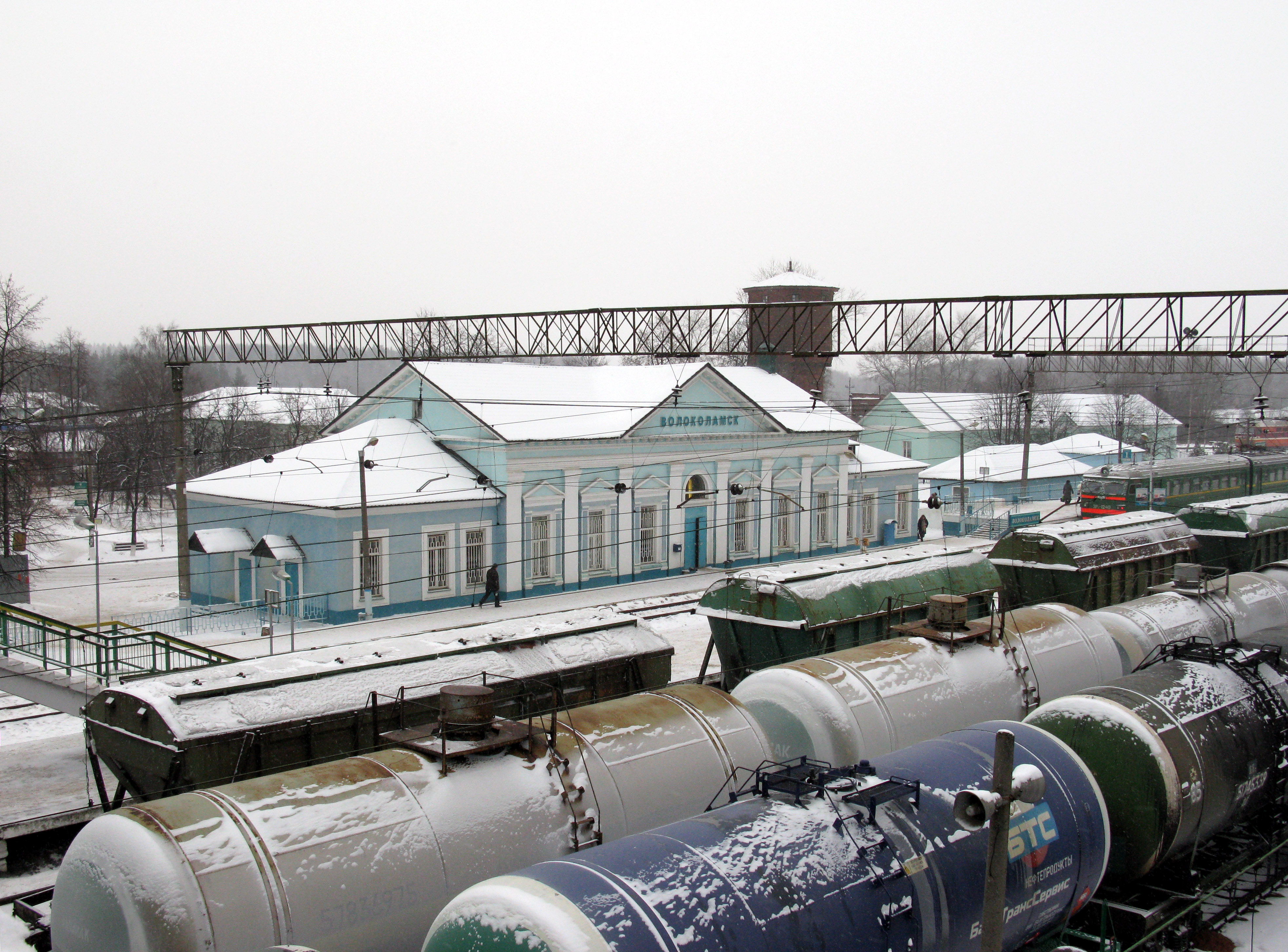 Train station Volokolamsk in Moscow Oblast